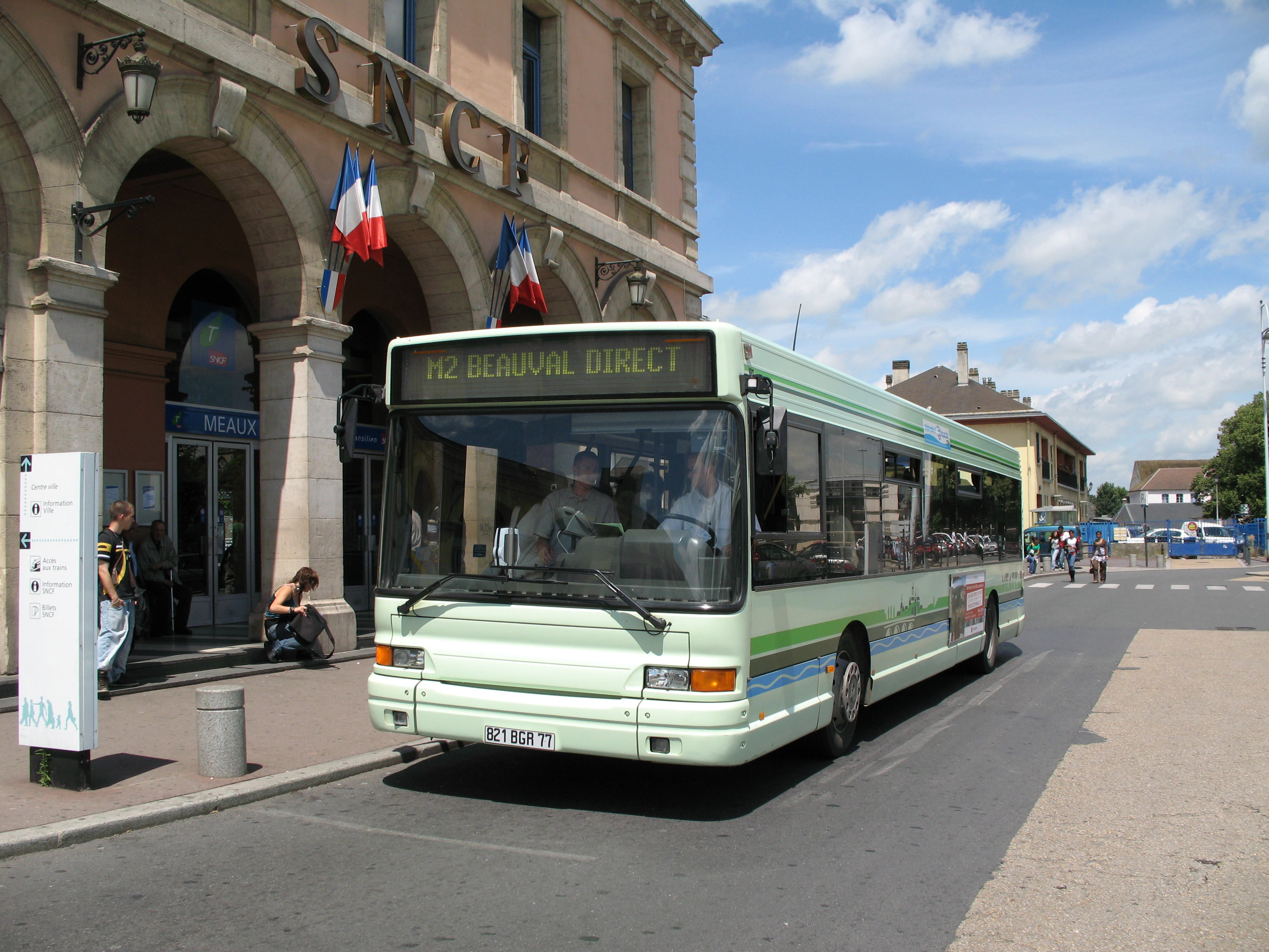 A bus of Marne et Morin company at the surroundings of Paris_Meaux_France